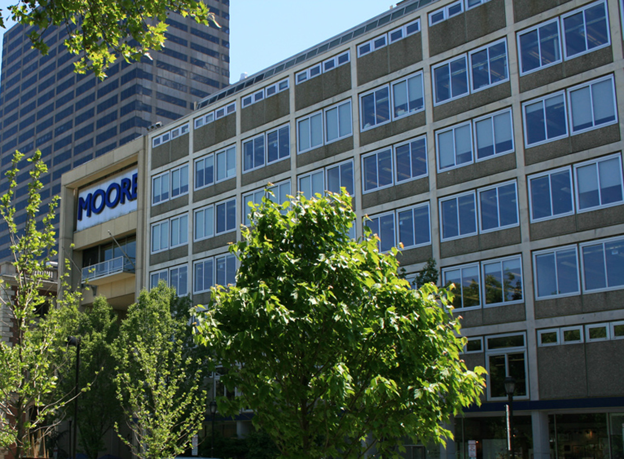 20th Street and the Parkway, Philadelphia, PA 19103.